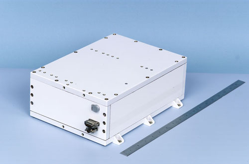 The Martian Radiation Experiment on 2001 Mars Odyssey measures the radiation environment of Mars using an energetic particle spectrometer.